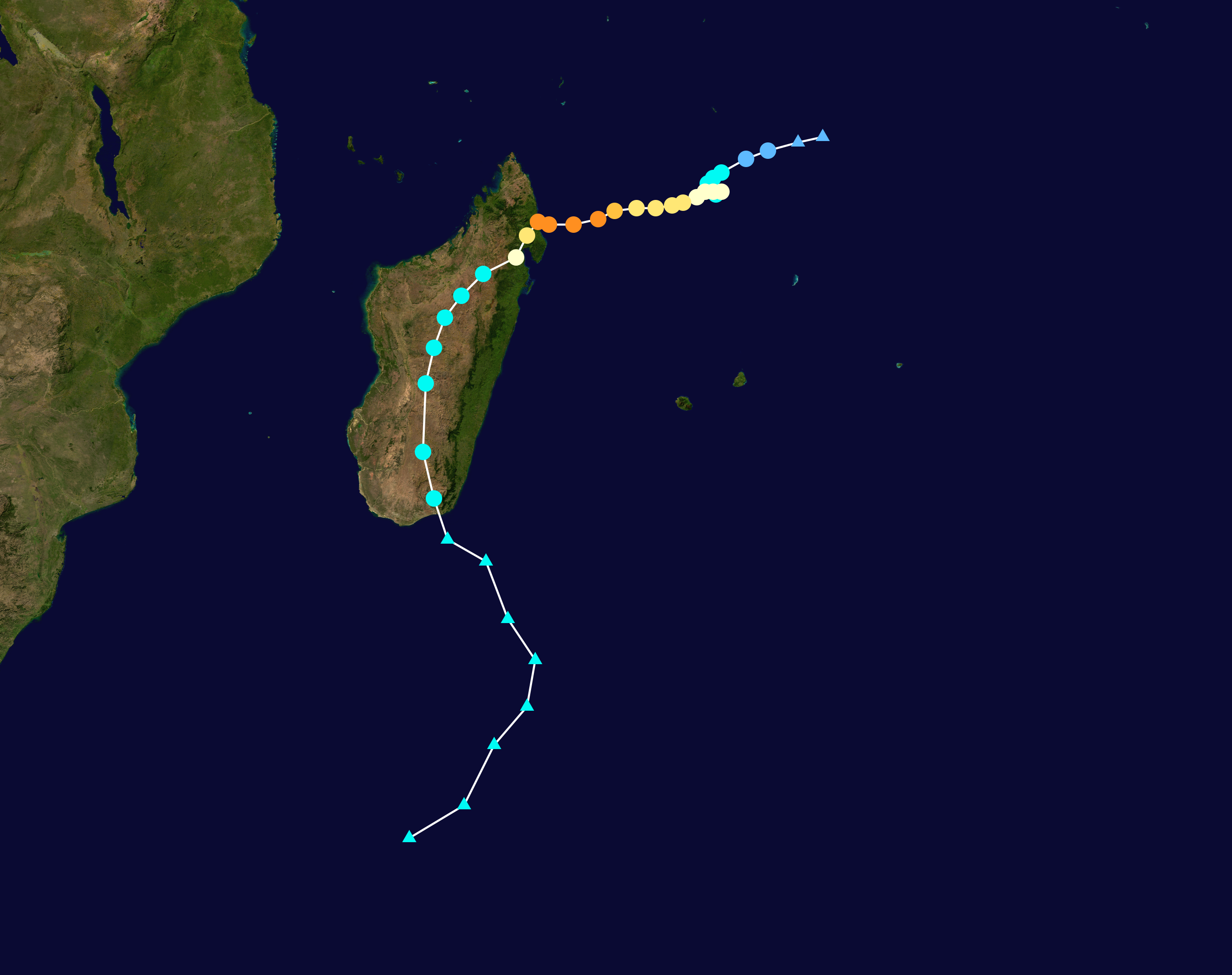 Track map of Intense Tropical Cyclone Enawo of the 2016-17 South-West Indian Ocean cyclone season. The points show the location of the storm at 6-hour intervals. The colour represents the storm's maximum sustained wind speeds as classified in the Saffir–Simpson scale (see below), and the shape of the data points represent the nature of the storm, according to the legend below. Saffir–Simpson scale Tropical depression≤38 mph≤62 km/h Category 3111–129 mph178–208 km/h Tropical storm39–73 mph63–118 km/h Category 4130–156 mph209–251 km/h Category 174–95 mph119–153 km/h Category 5≥157 mph≥252 km/h Category 296–110 mph154–177 km/h Unknown Storm type Tropical cyclone Subtropical cyclone Extratropical cyclone / Remnant low / Tropical disturbance / Monsoon depression